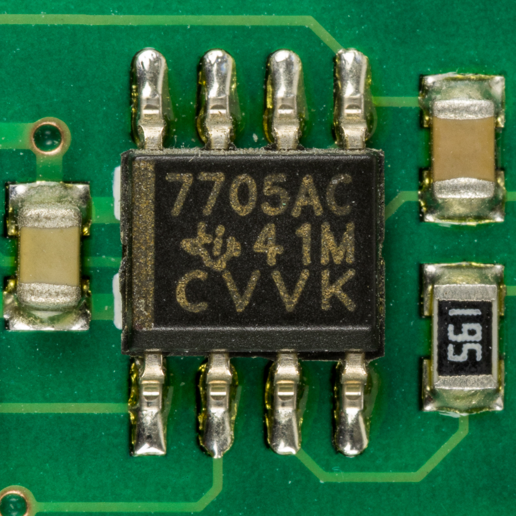 Auerswald COMander Basic - Mainboard - Texas Instruments 7705AC - Supply-Voltage Supervisor